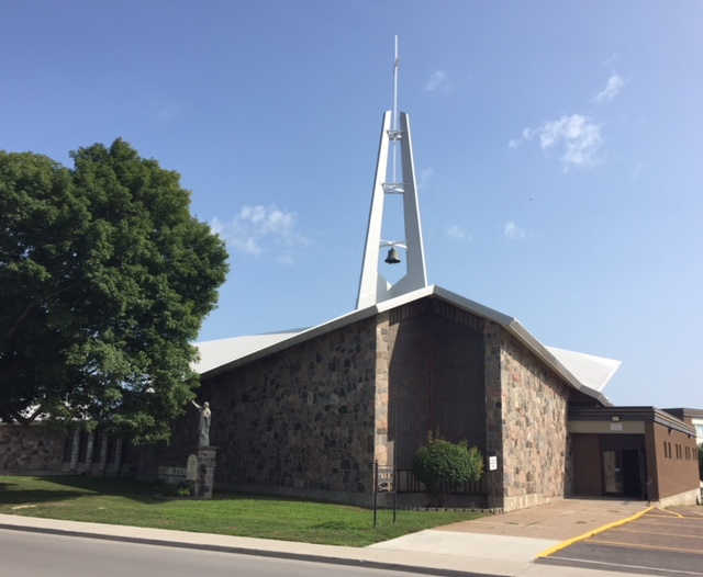 St. Francis Xavier Catholic Church, Renfrew, Ontario